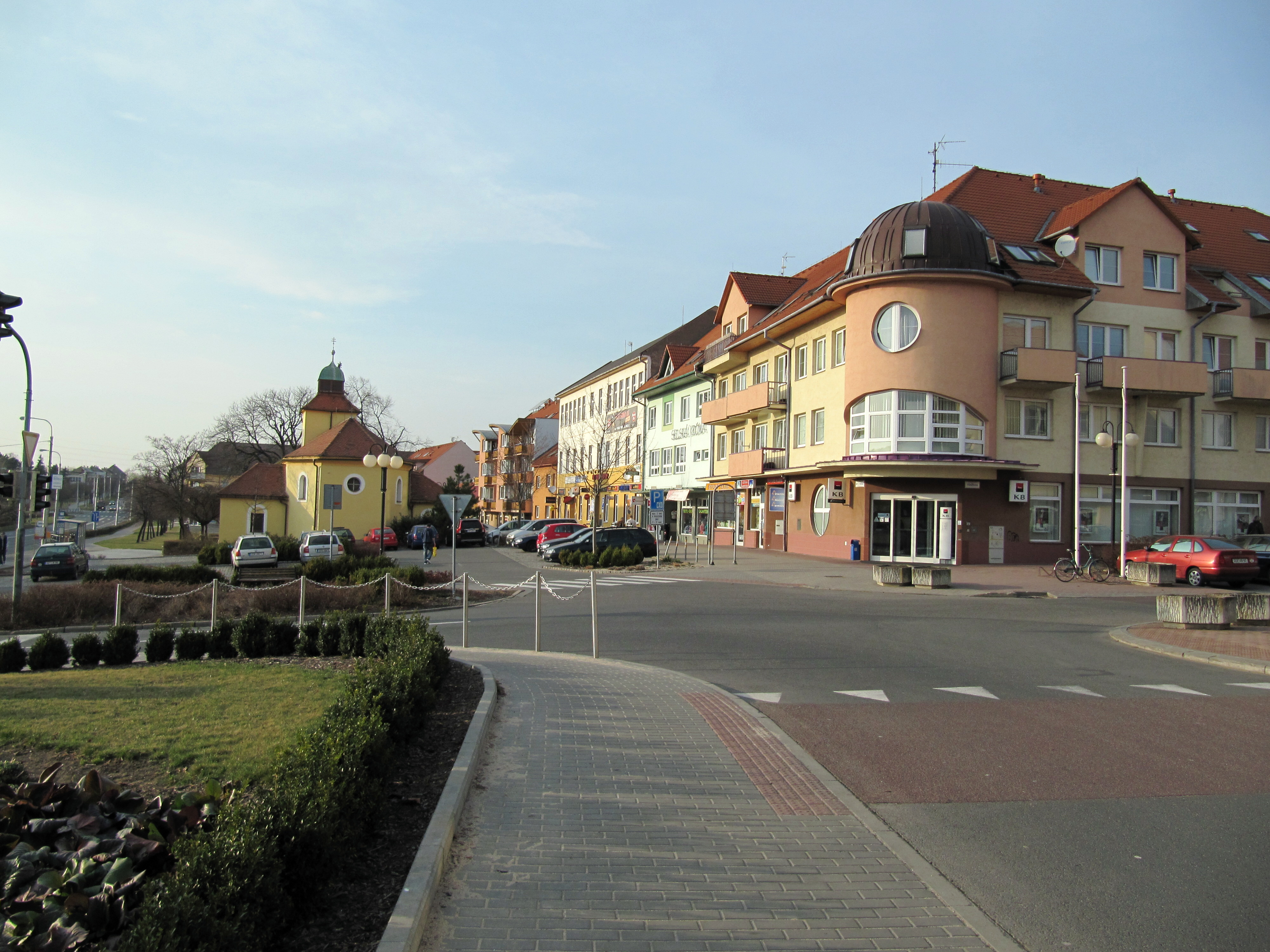 Otrokovice in Zlín District, Czech Republic. Square Náměstí 3. května, church and bank.